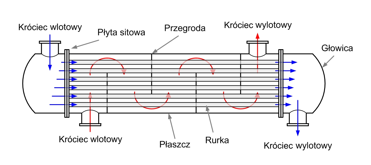 BEM Type Shell and Tube Heat Exchanger